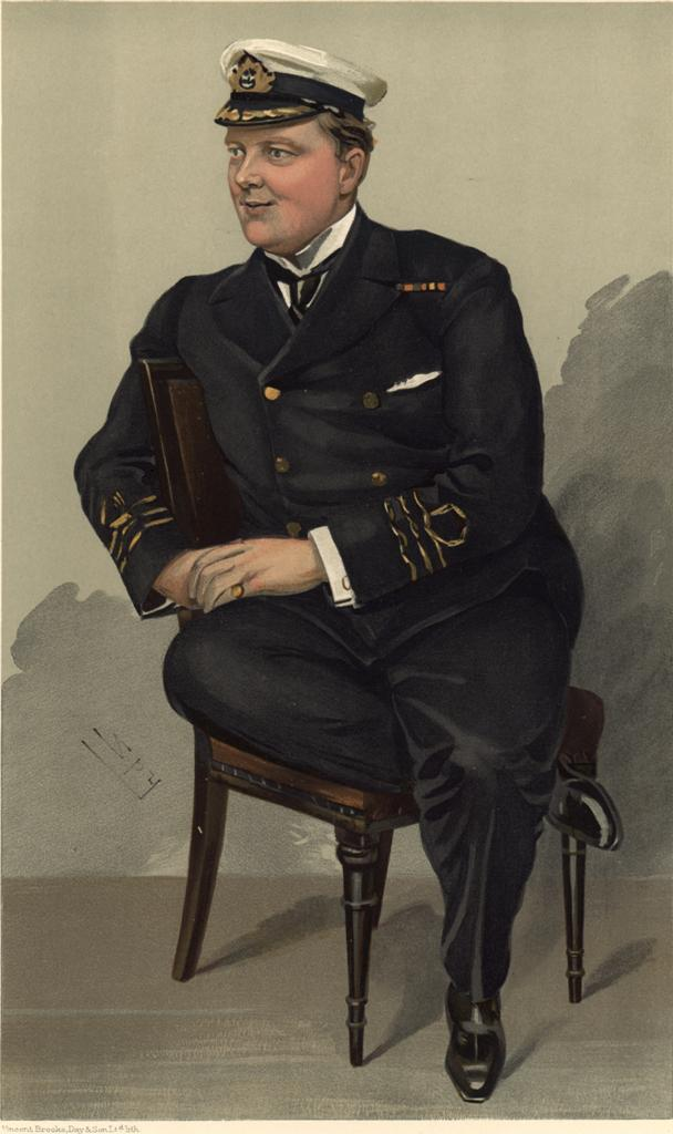 Guinness, Rupert Edward Cecil Lee (Lord Iveagh) - “Rupert”.